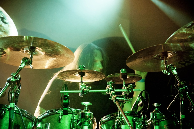 Dariusz "Daray" Brzozowski of Masachist Polish death metal band, Kraków, Loch Ness, 26.08.2010